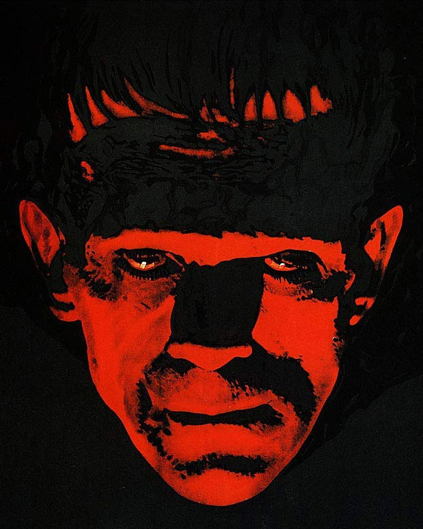 Illustration of Boris Karloff as Frankenstein's Monster the "Style B" teaser poster for the 1931 film Frankenstein.